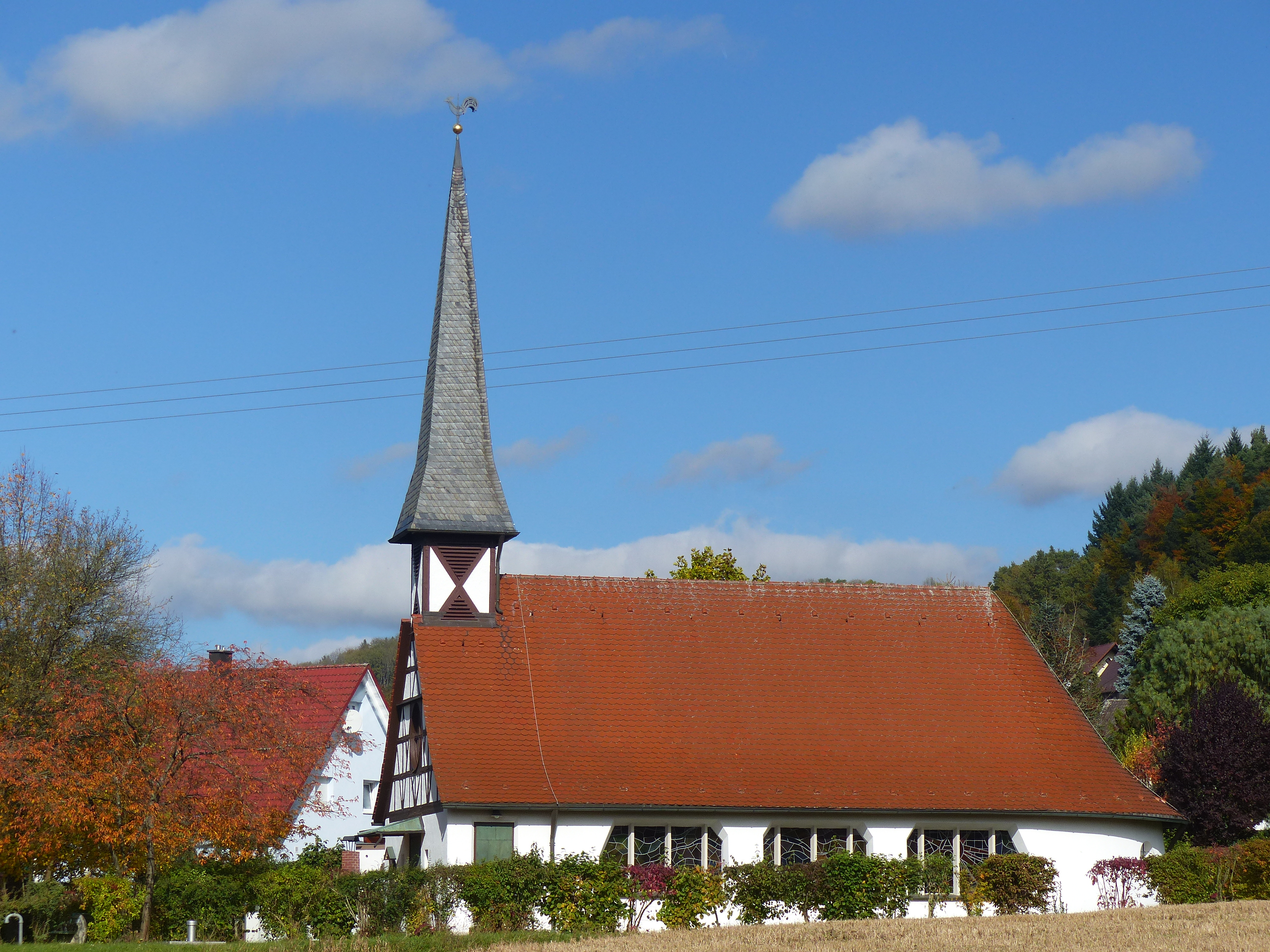 The Evangelical-Lutheran Church of Hüttenbach, part of the municipality of Simmelsdorf